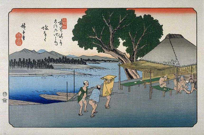 Shionada on the Kisokaido, ukiyo-e prints by Hiroshige